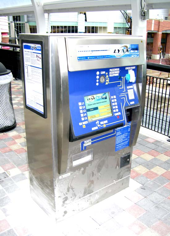 LYNX light rail ticket vending machine at the CTC/Arena station